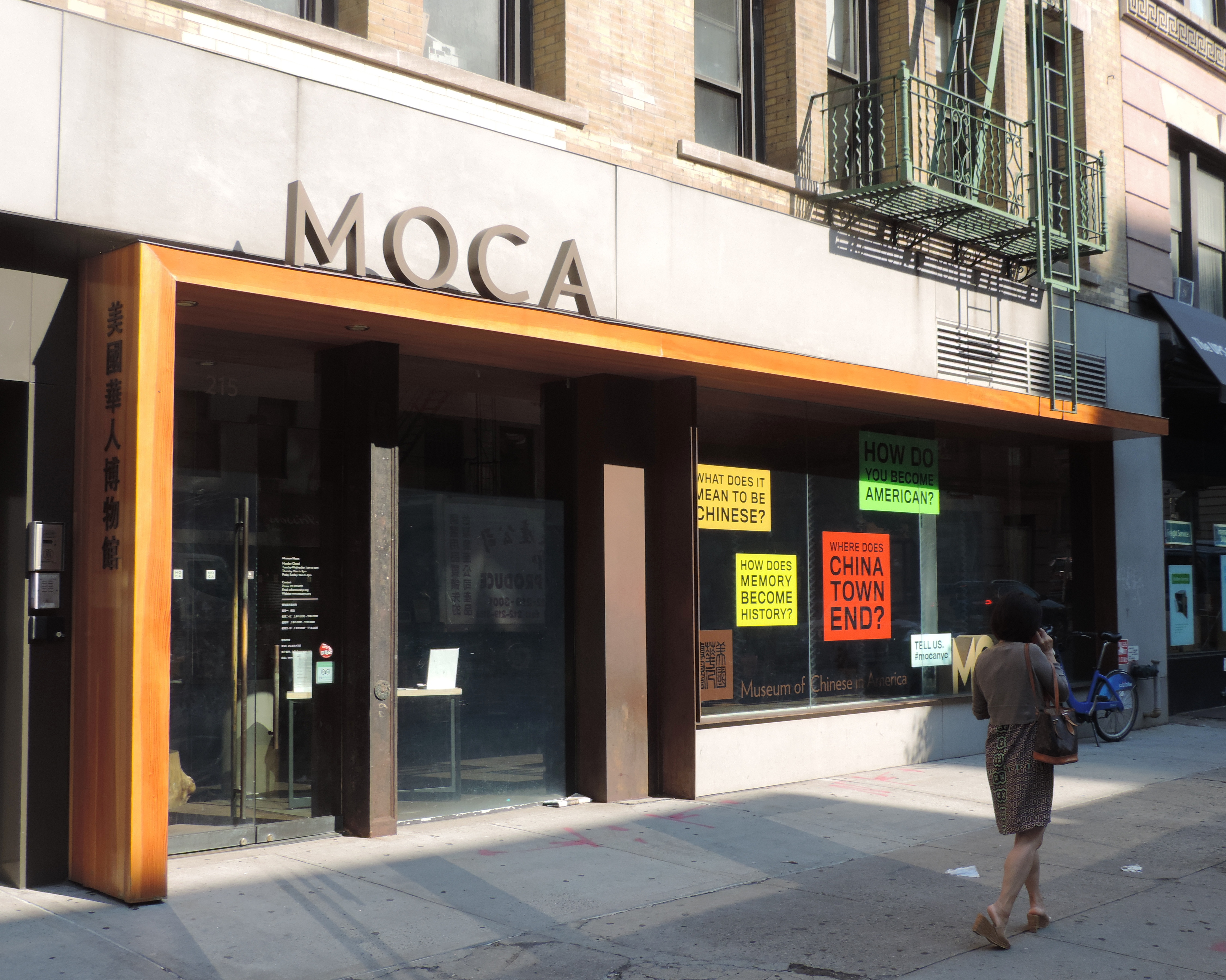 Looking north at museum on a sunny morning.